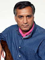 Portrait of British Filmmaker Asad Qureshi